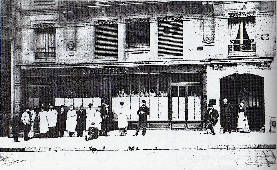 The employees of E. Ducretet et Cie, 75 rue Claude-Bernard Paris, 5th Arrondissement.